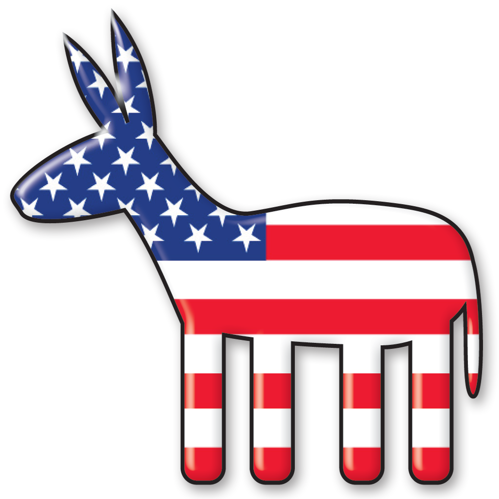 A wholly self created flag donkey